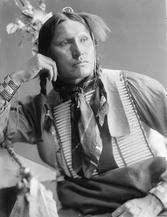 Samuel American Horse, American Indian, probably a member of Buffalo Bill's Wild West Show, half-length portrait, facing front, wearing breastplate.